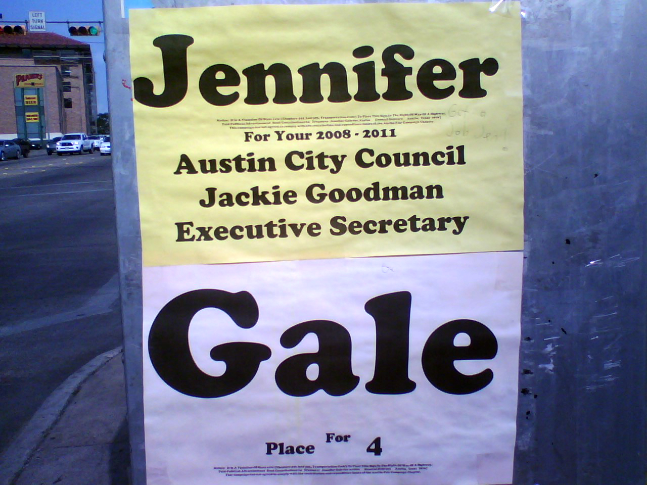 Jennifer Gale Campaign Sign